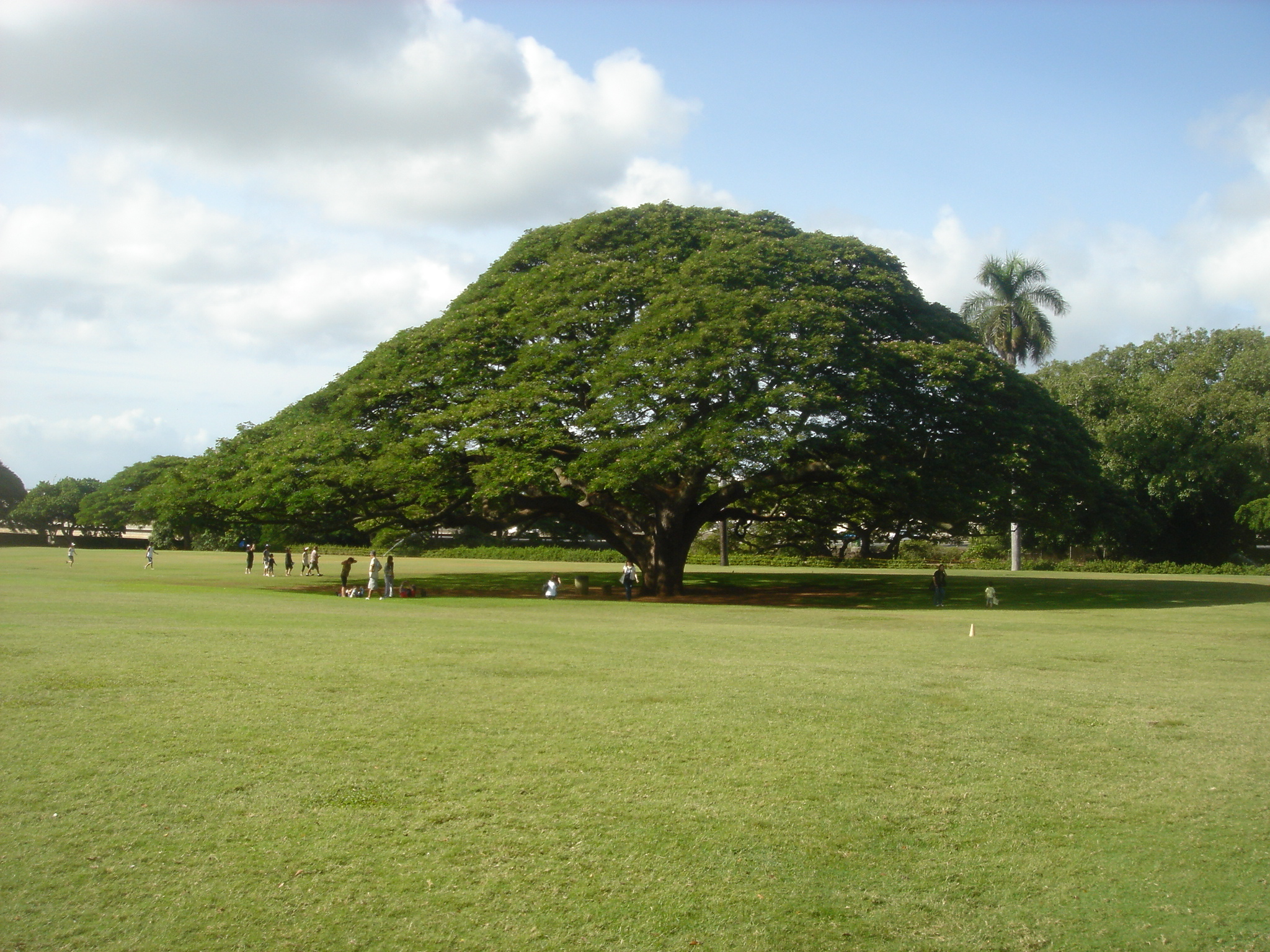 Hitachi’s tree in Moanalua Garden, Hawaii, USA